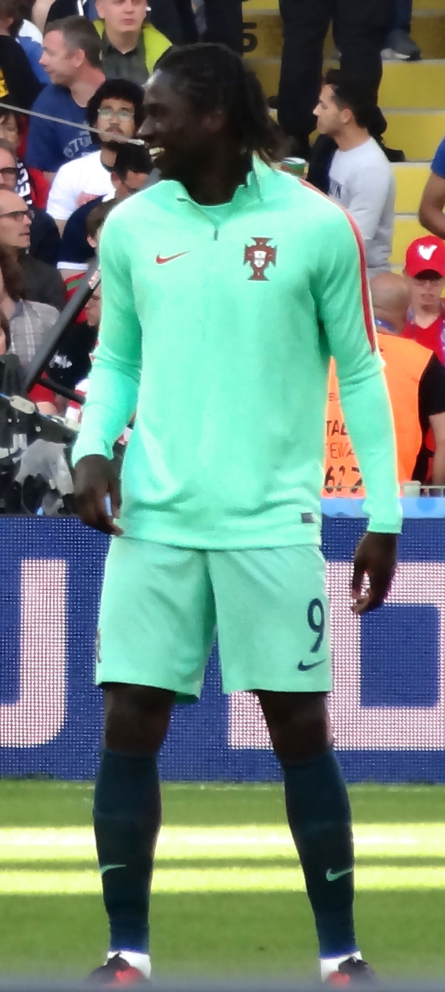 "Éder" Éderzito António Macedo Lopes à l'Euro 2016